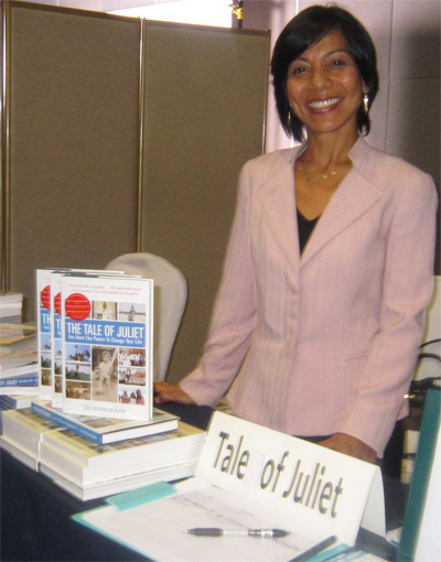 The author, Jhet van Ruyven with her self-published auto-biographical book The Tale of Juliet.